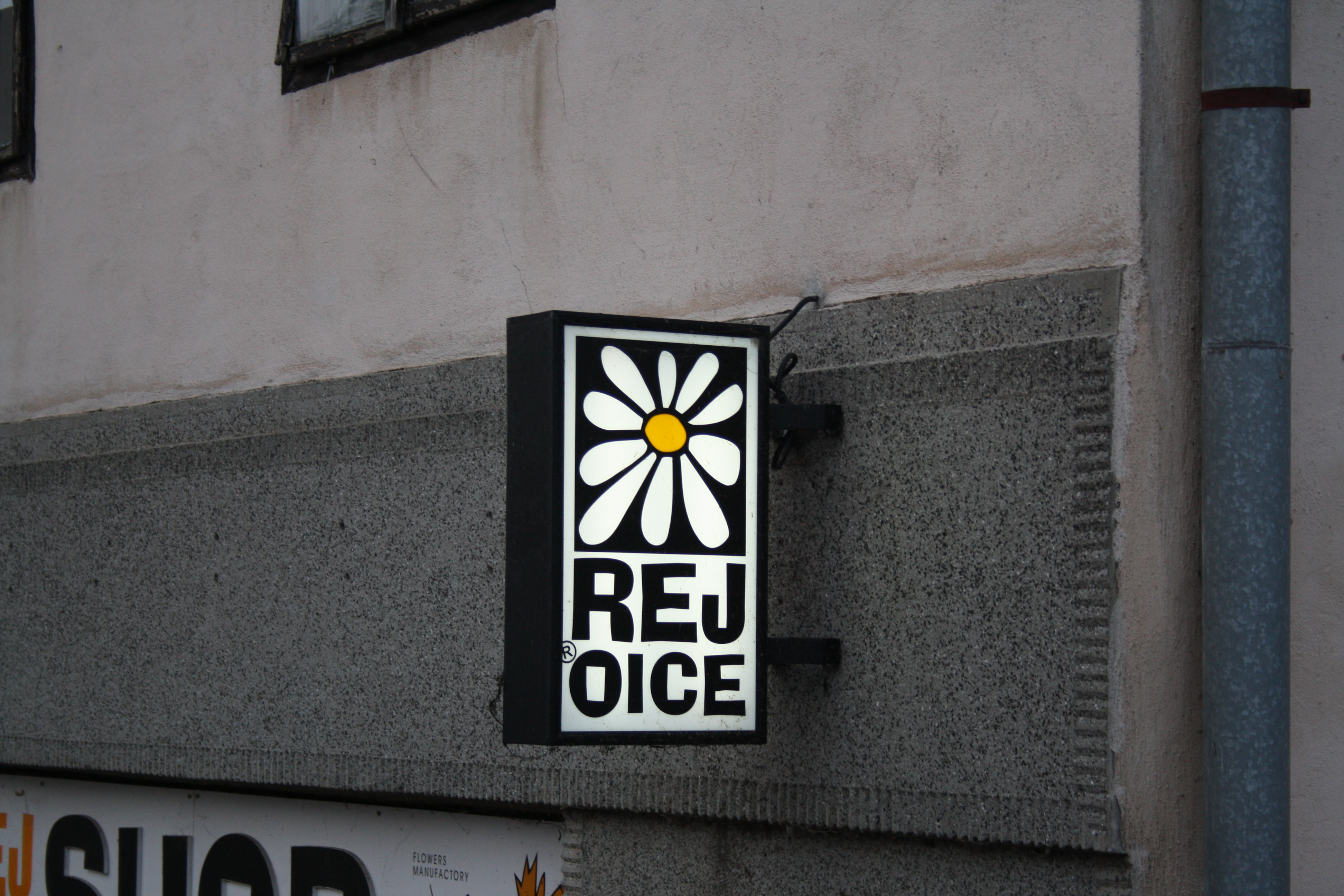 Rejoice shop logo in Třebíč, Czech Republic.